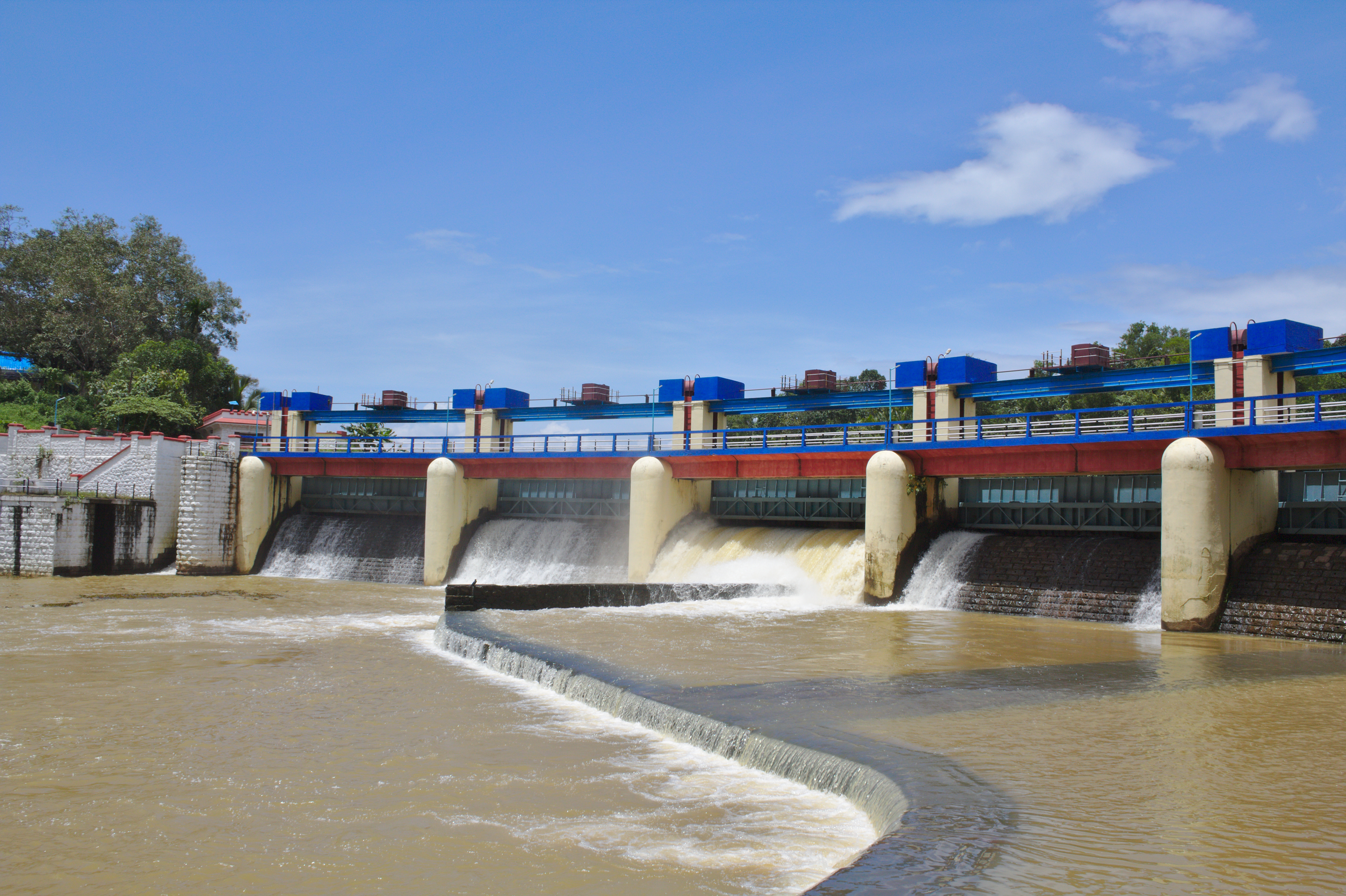 Aruvikkara Dam, Thiruvananthapuram, Kerala, India